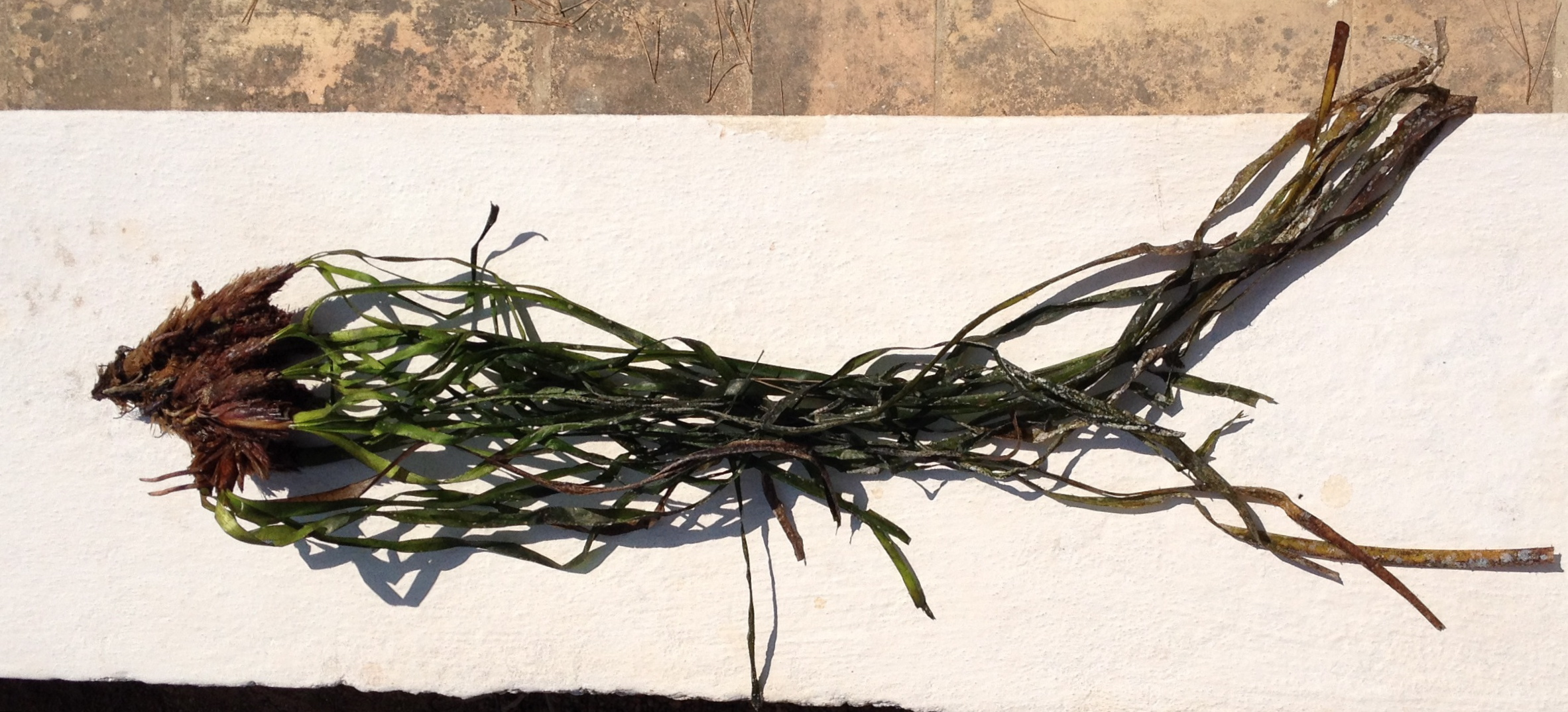 Five stems of Posidonia Oceanica